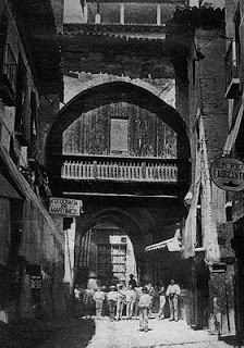 Photography of Gate of the Ears (Street of Salamanca, Granada, Spain) in 1870. It observe its poor condition just before its demolition.